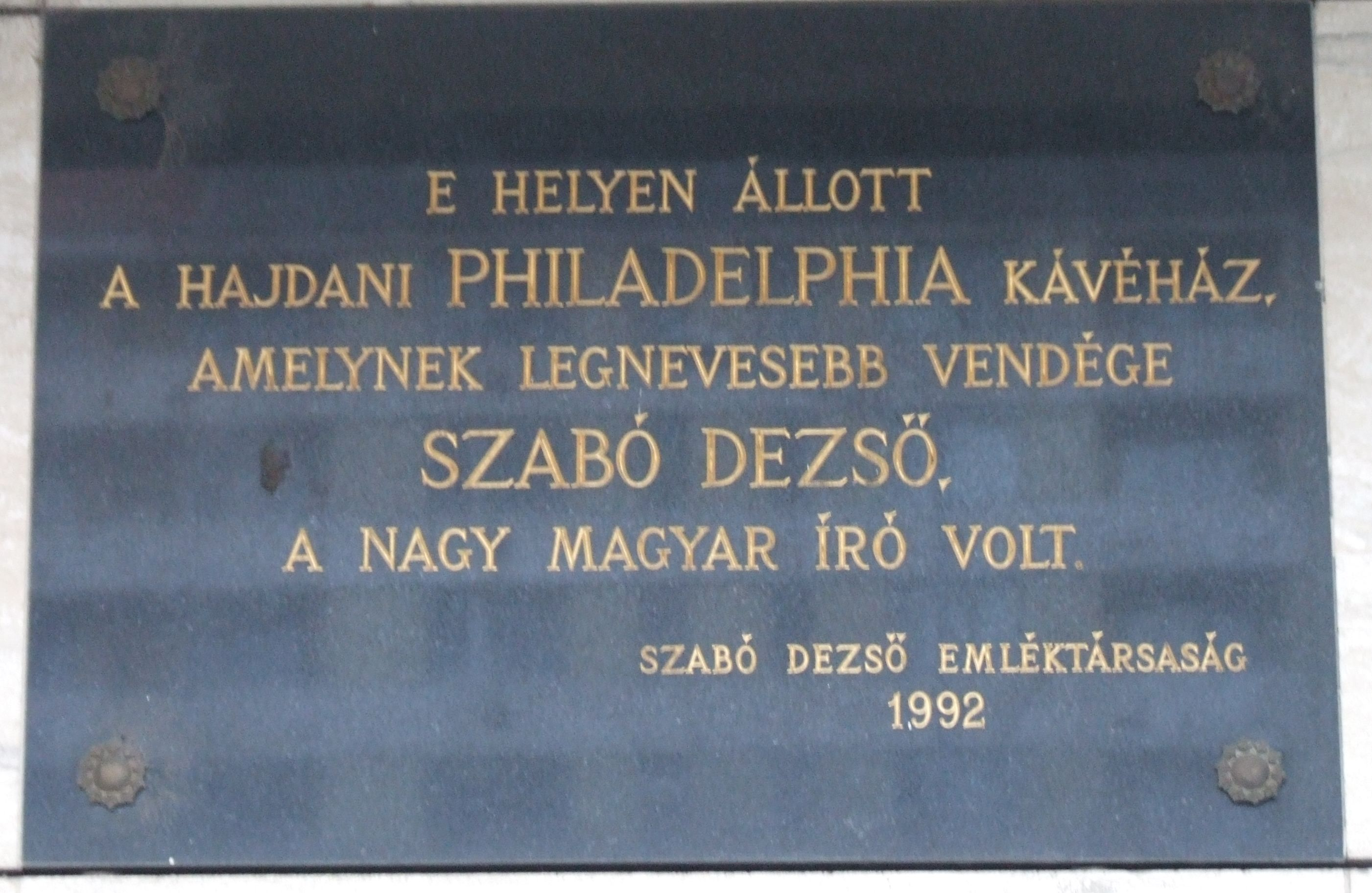 Philadelphia cafe and Dezső Szabó (writer) commemorative plaque in Budapest District I, Alagút Street No 3